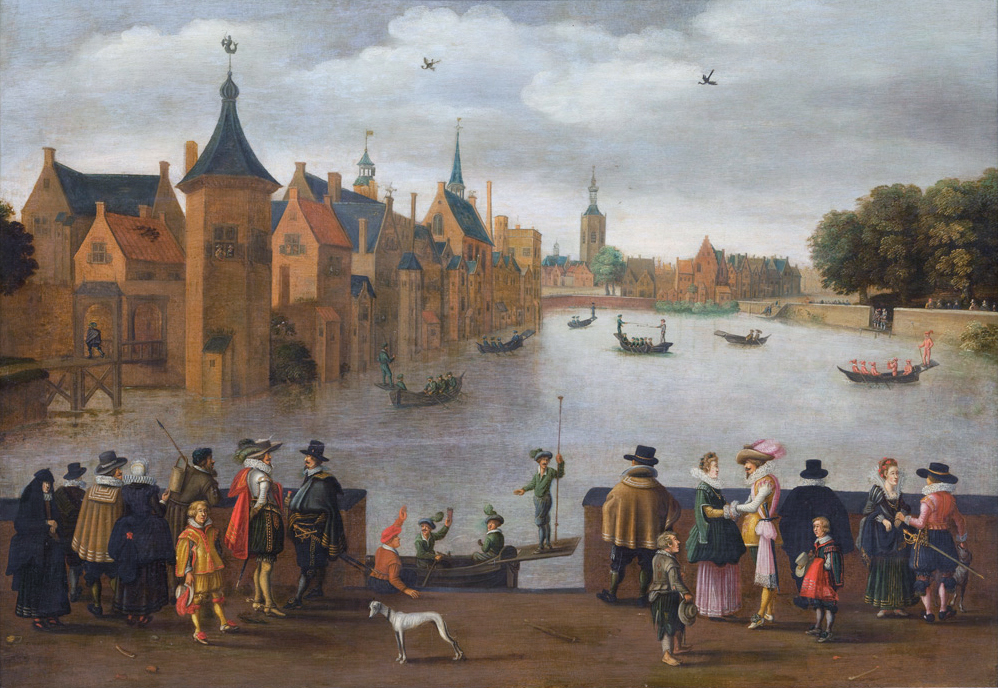 Joust on the Hofvijver oil on panel 65,5 x 92,6 cm ca. 1625